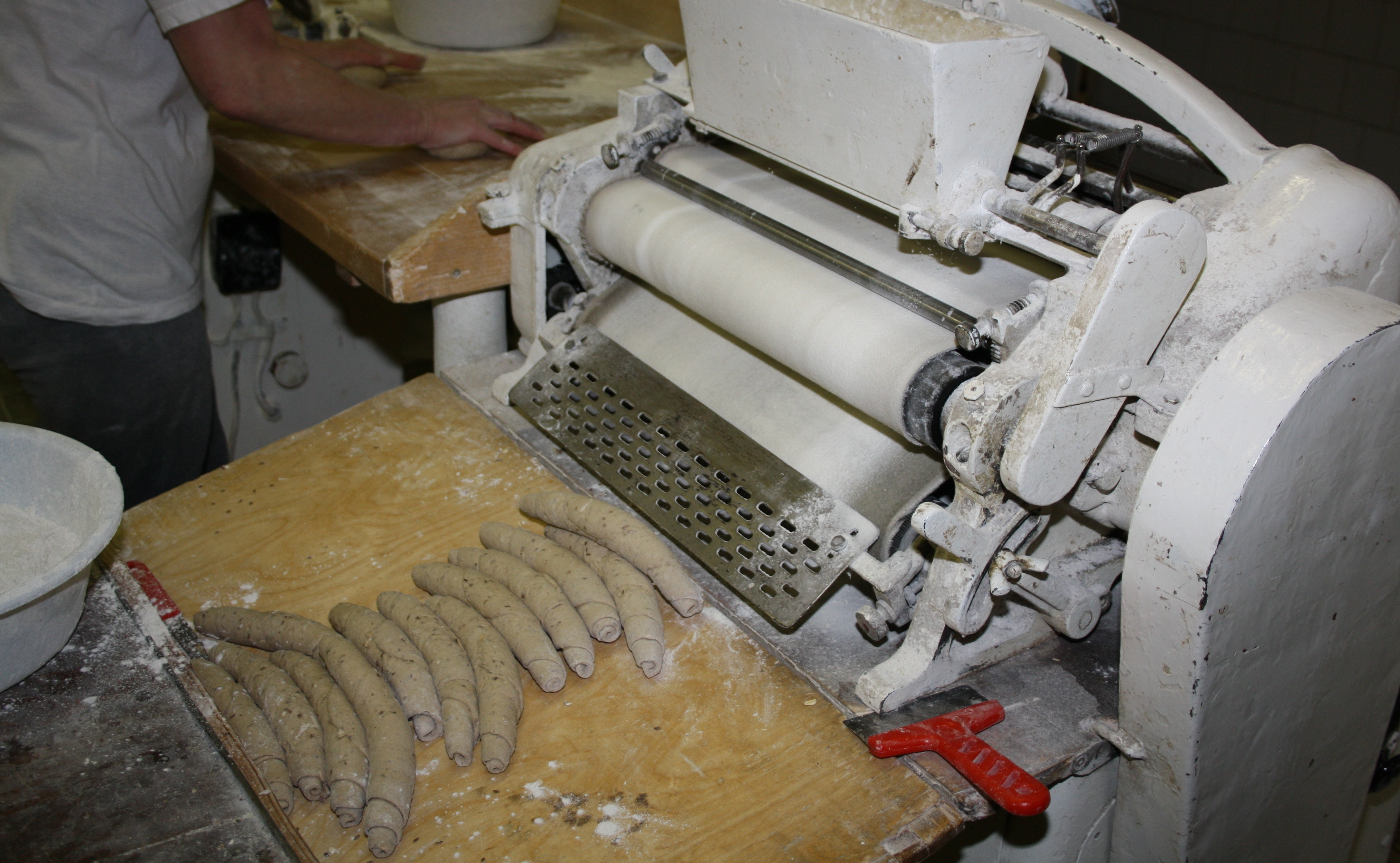 Production process of czech "celozrnný rohlík". This photograph was taken with a DSLR from WMCZ's Camera grant. This picture was taken and/or got within the scope of the 'Acquiring scientific and specialized pictures' grant.